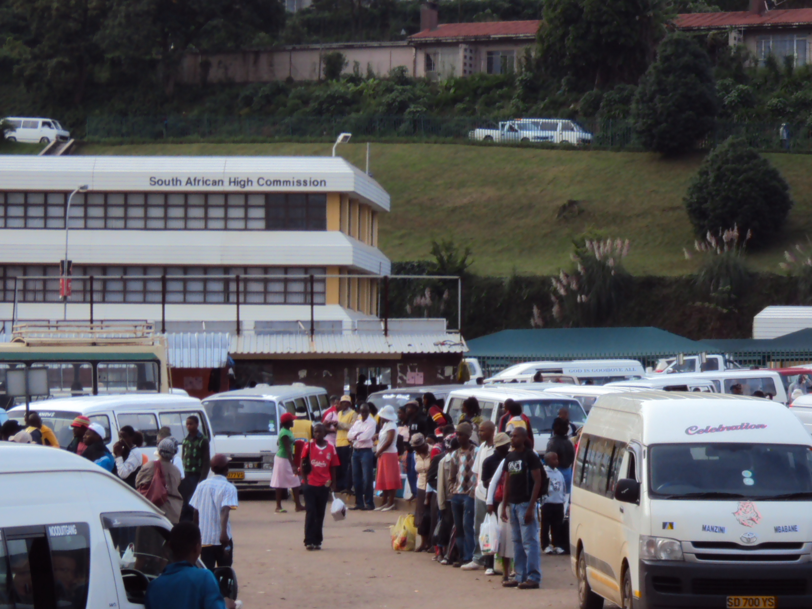 High Commission of South Africa in Mbabane, Eswatini